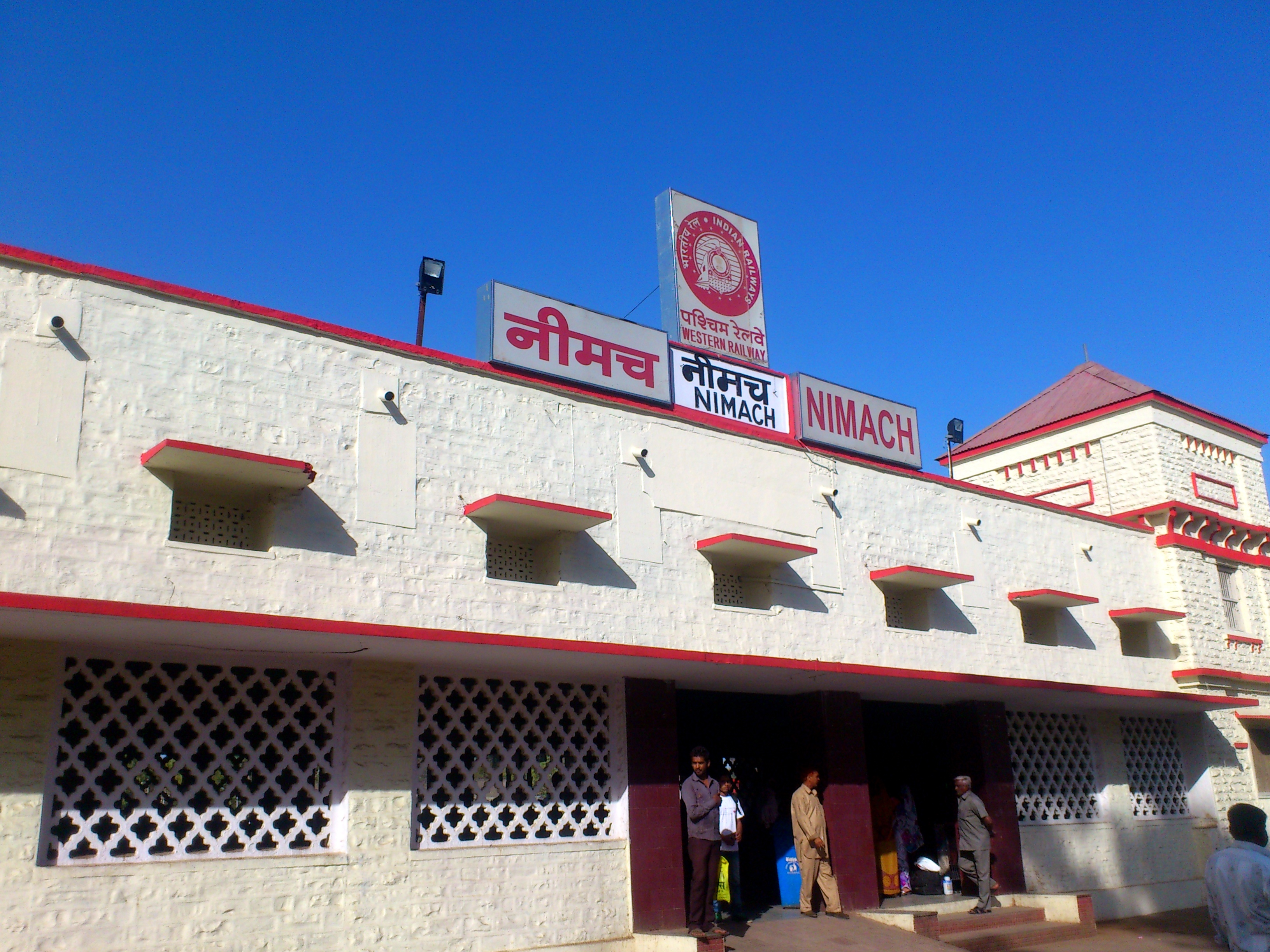 Neemuch Railway station from outside